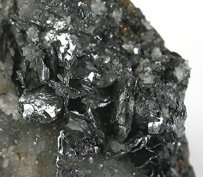 Nagyágite Locality: Sacarîmb (Sãcãrâmb; Szekerembe; Nagyág), Hunedoara County, Romania (Locality at ) Size: 3.7 x 2.6 x 2.0 cm. Rich, lustrous, gun-metal colored nagyagite crystals to 6 mm cascade down onto this quartz-covered matrix. A fine miniature specimen of this species. These are pocket crystals grown into an open cavity, and so notably these crystals have superb lustre, not indicative of the acid-leaching so often used on this material to free crystals from enclosing quartz. The crystals are, for the species, unusually robust as well. Type locality.